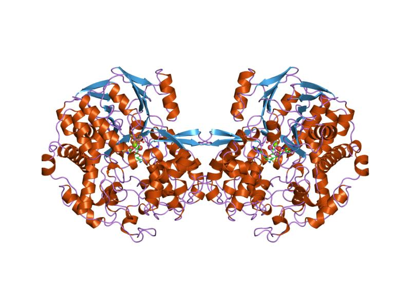 Cartoon representation of the molecular structure of protein registered with 1aor code.